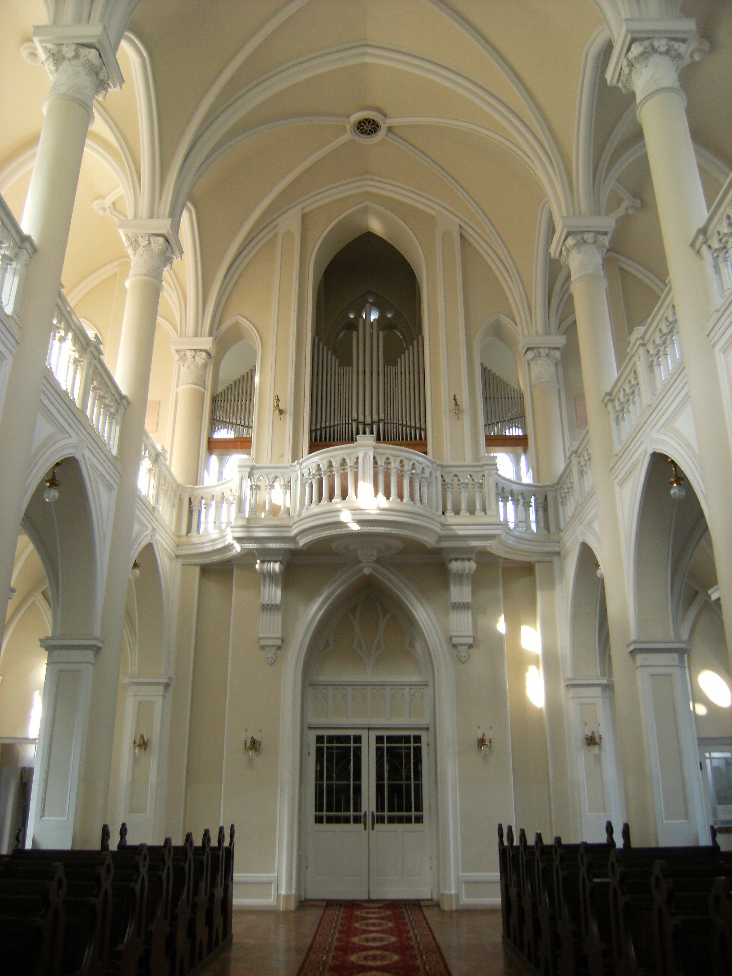 Old Catholic Mariavite Temple of Mercy and Charity in Plock